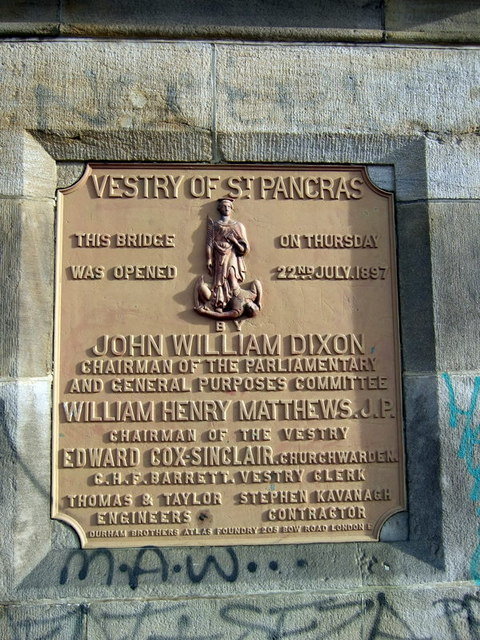 Plaque on St Pancras Way canal bridge This looks as fresh as the day it was placed! It commemorates everyone involved in the opening of the bridge on 22nd July 1897 and depicts the image of St Pancras as a teenage martyr.